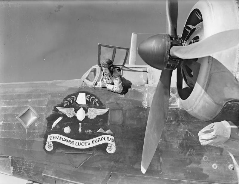 IWM caption : The nose insignia on Vickers Wellington Mark IC, T2508 'LF-O', of No. 37 Squadron RAF at an Advanced Landing Ground in Egypt. Each emblem represents a member of the crew under the devices of the aircraft's captain, Flying Officer P C "Cheese" Lemon.